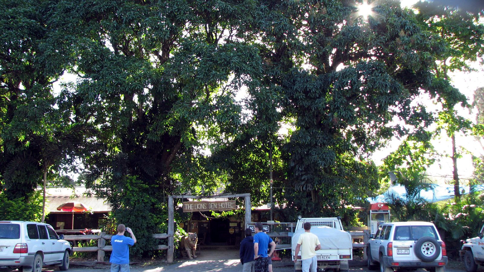 Mango trees, Cooktown, Queensland, Australia